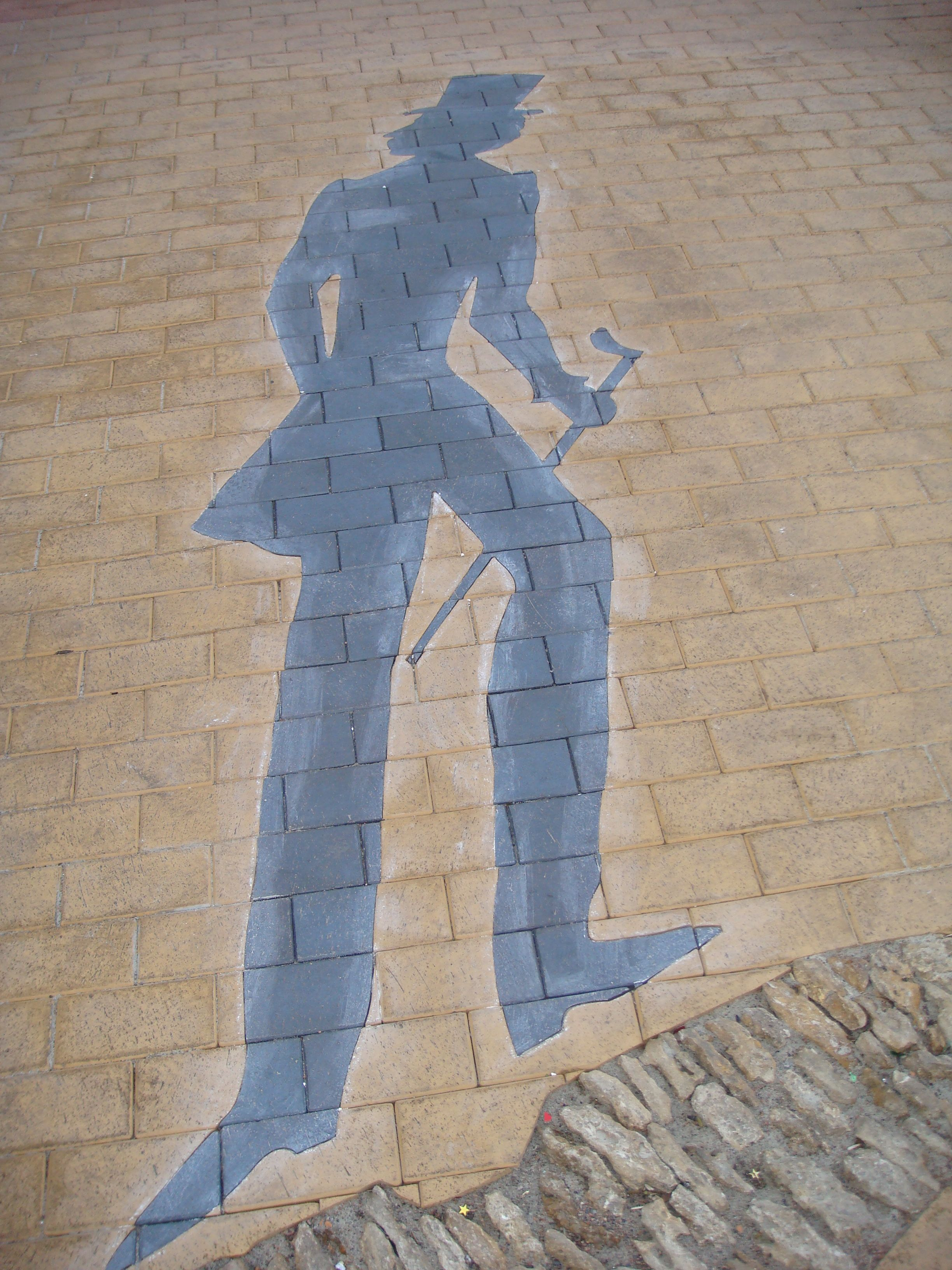 Art object - Shadow of Alexander Pushkin, created on the corner of Deribasovskaya and Rishelevskay streets of Odessa, at the place which was visited by poet by many times - house of Reno was located at this place in the beginning of XIX century